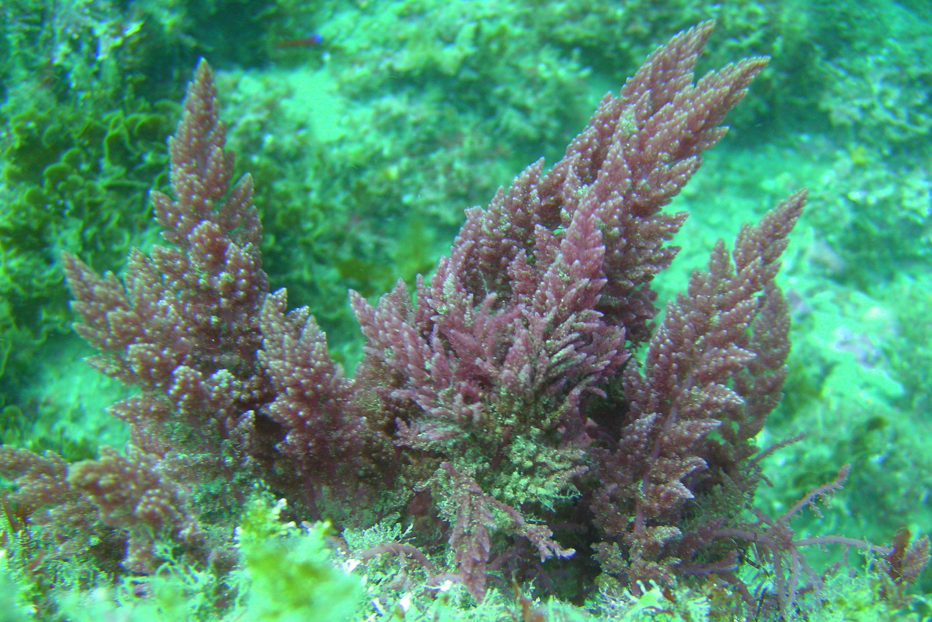 unidentified red algae.